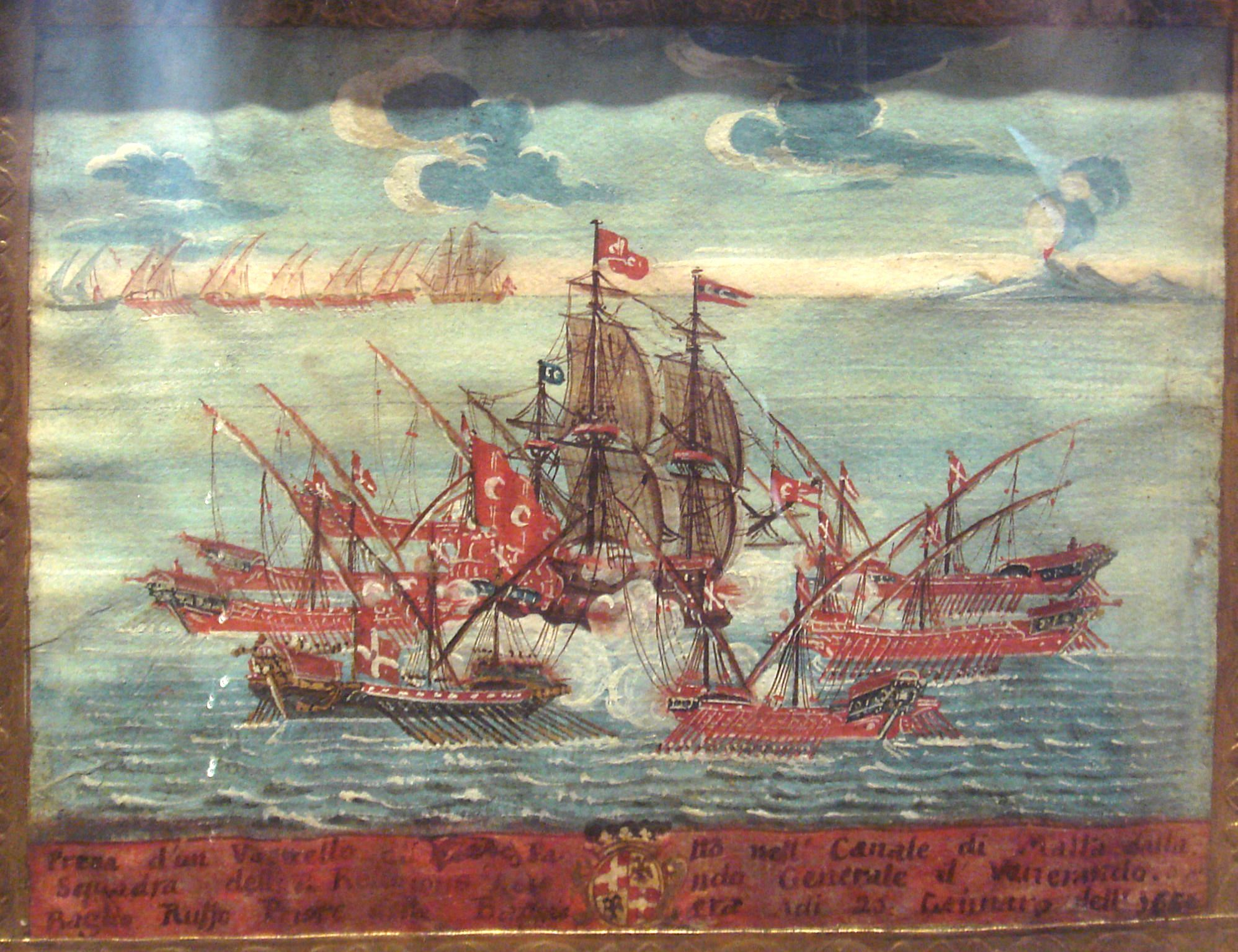 Capture of a Turkish warship in the Canal of Malta par Bailli Russo 25 January 1652.